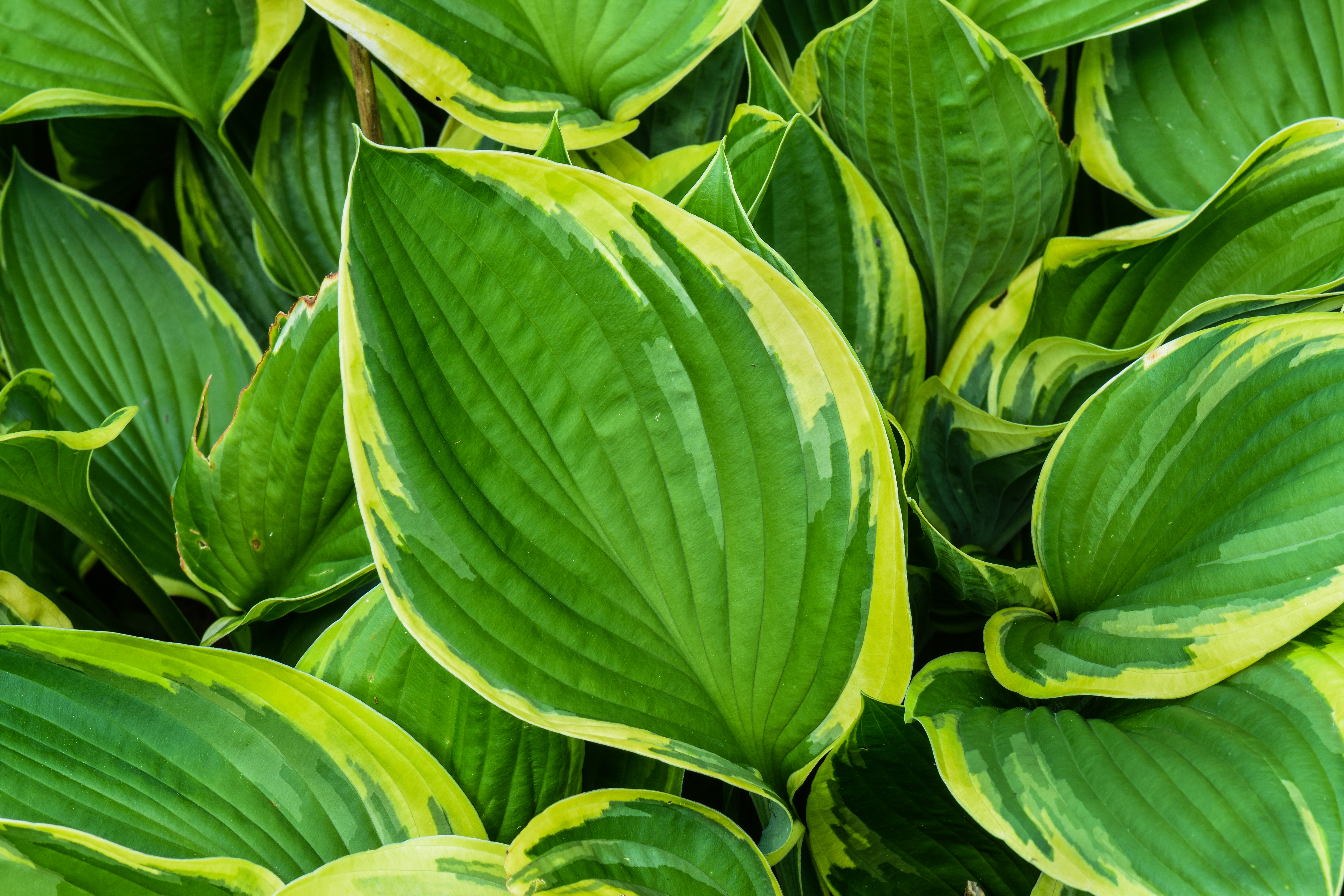 A Hosta sieboldiana cultivar 'Yellow Splash Rim', often the species is called Hosta montana.